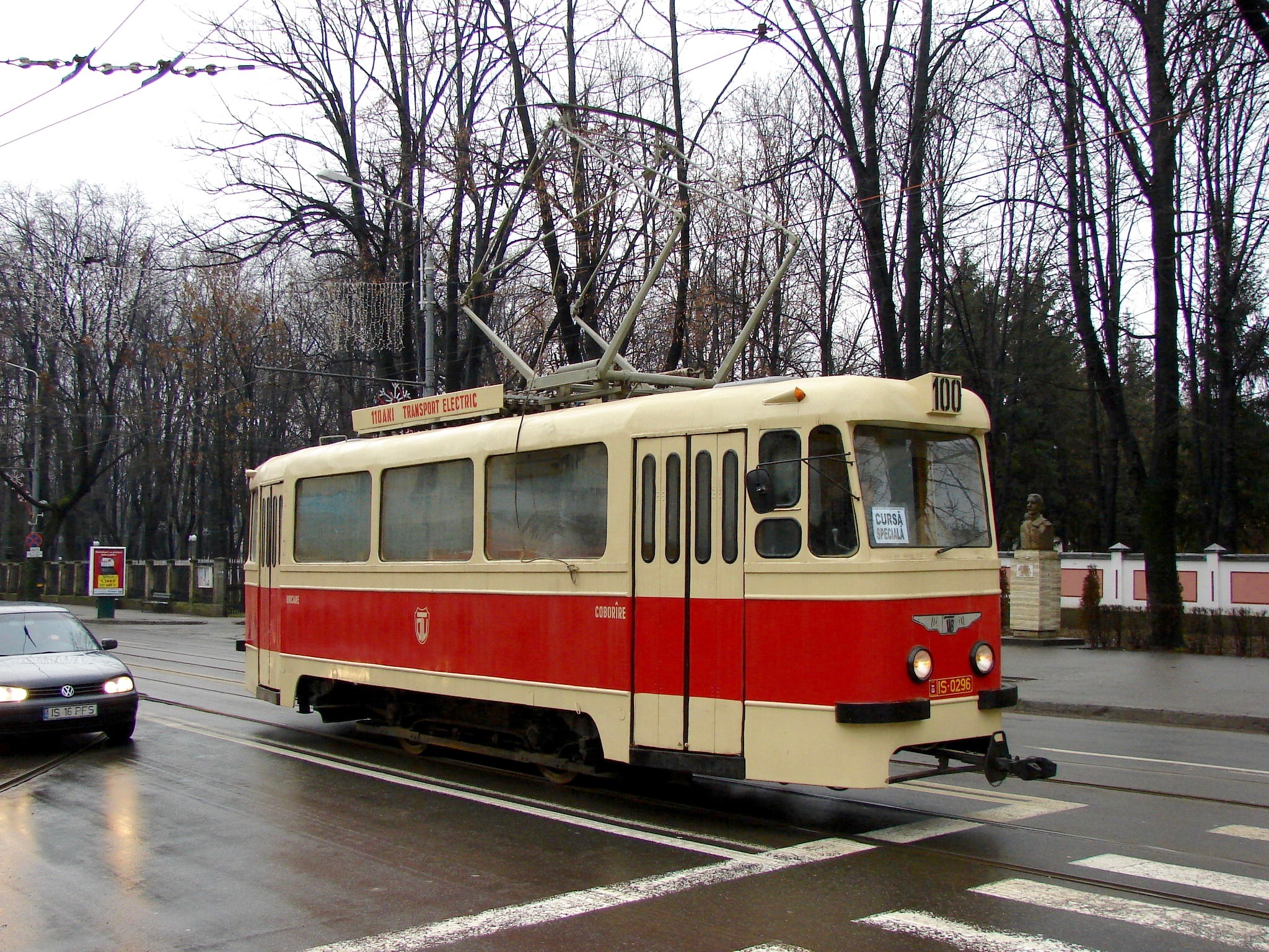 Preserved and restored Iasi ITB V58 two-axle tram 100, built in 1961 by the Bucharest tram company. The car was restored in 2007/08.